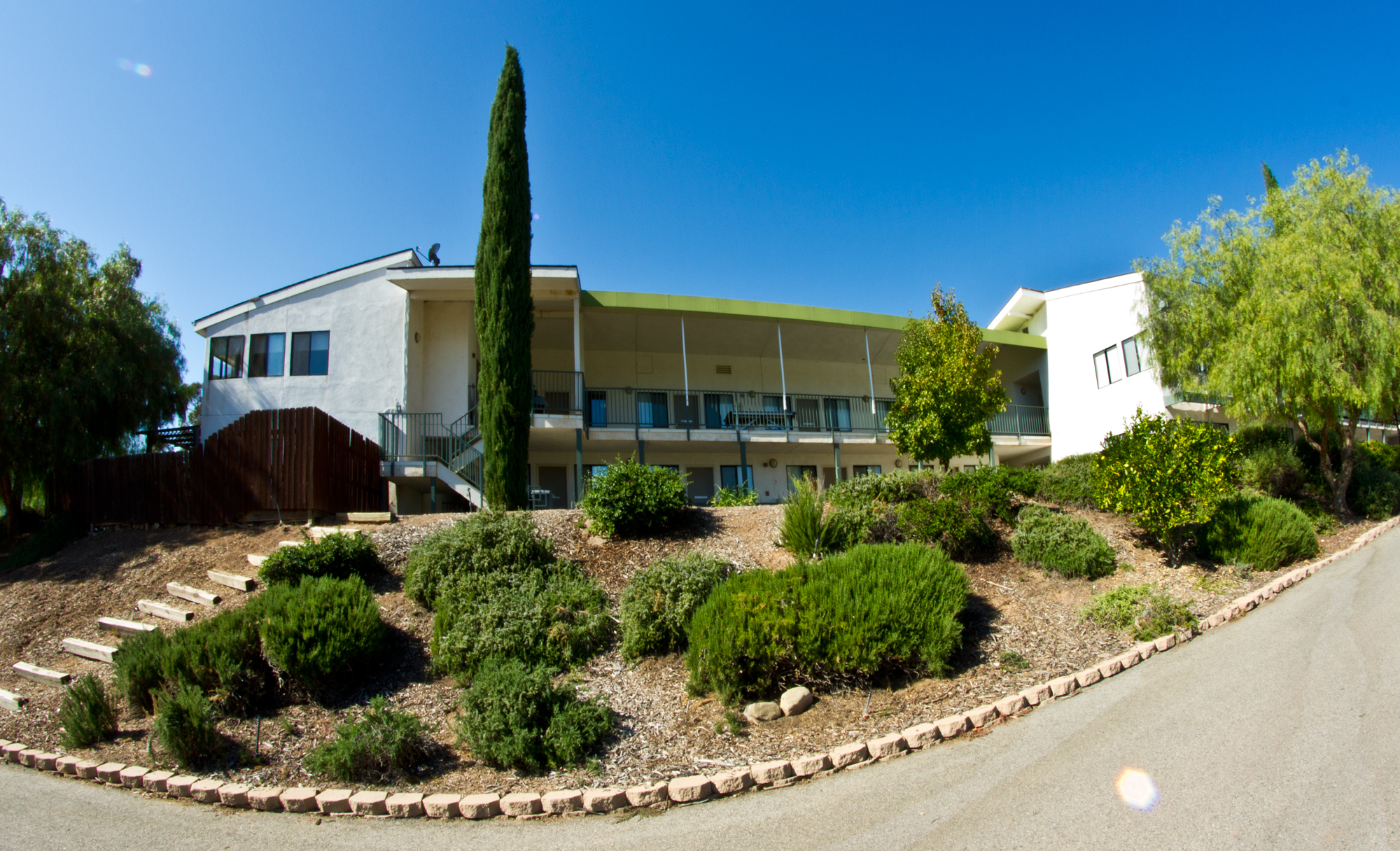 Photo of the Eos dormitory of Besant Hill School in Ojai, California.